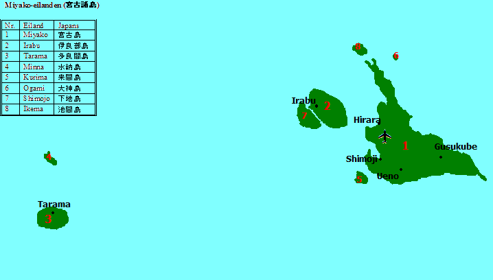 Map of the Miyako Islands Okinawa Prefecture, Japan